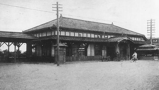 Aizu-Wakamatsu Station in Taisho era